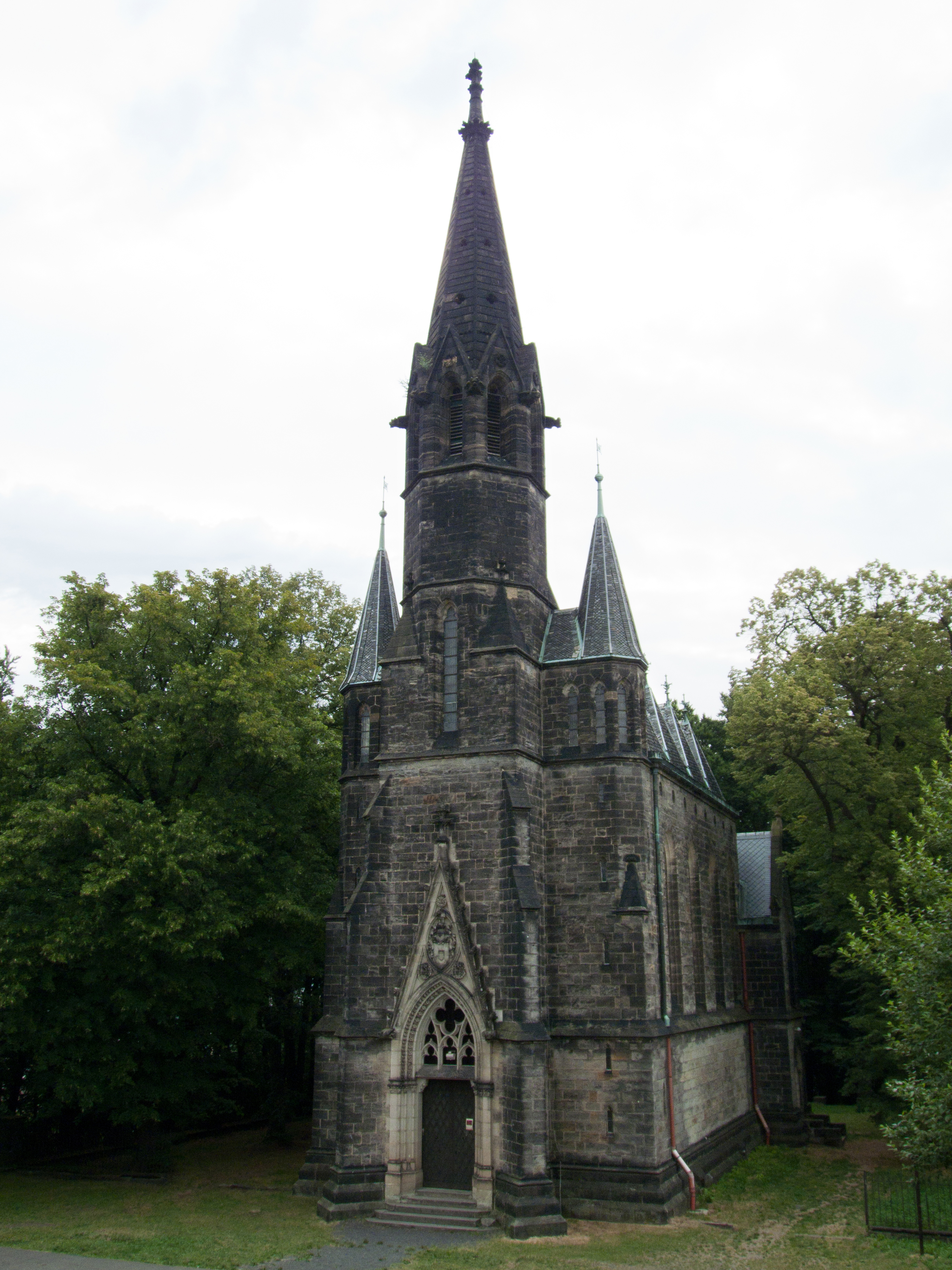 Thun Chapel in Děčín, Czech Republic as seen from the west